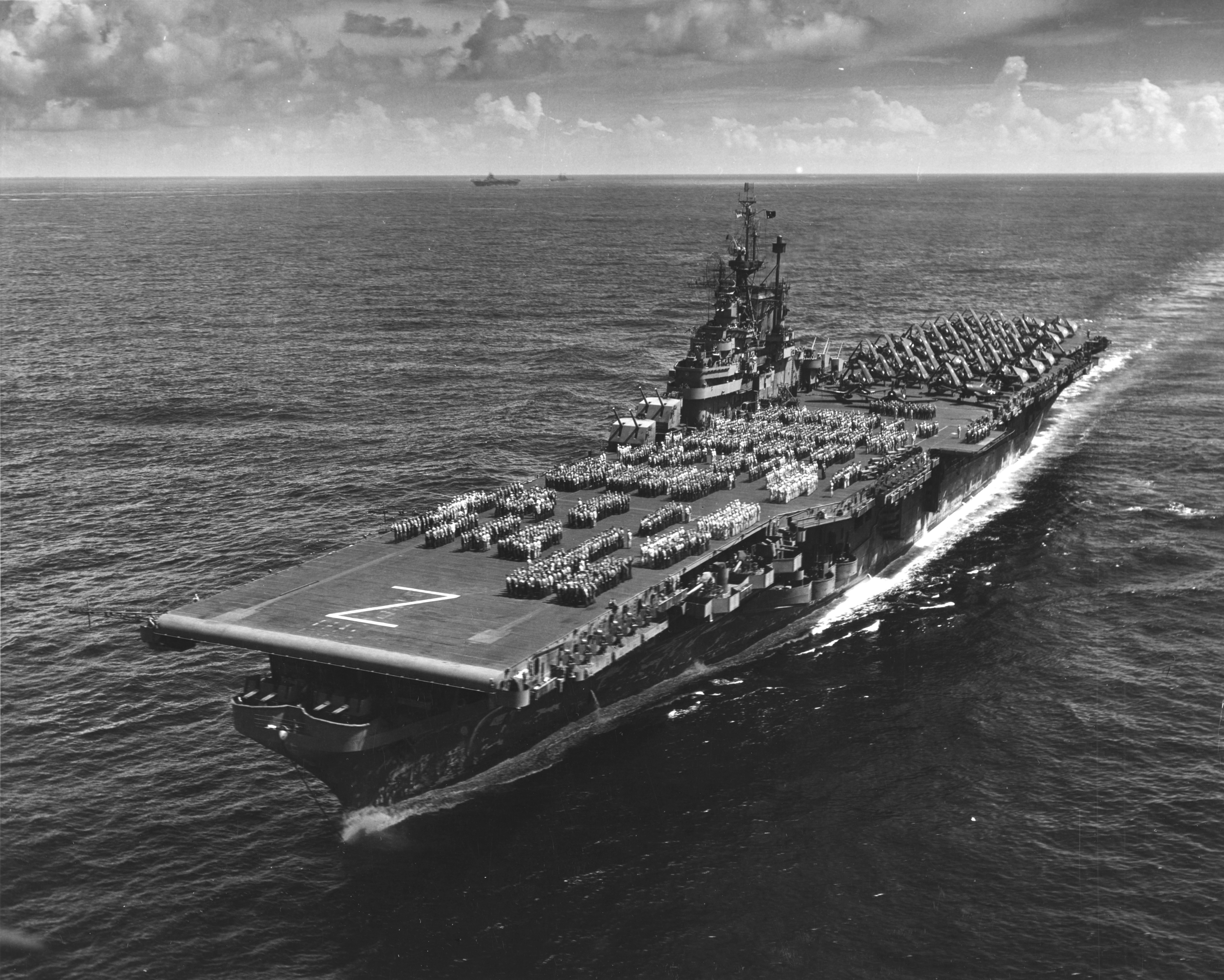 The U.S. Navy aircraft carrier USS Shangri-La (CV-38) underway in the Pacific Ocean, with her crew paraded on the flight deck, 17 August 1945. Note use of the air group identification letter "Z" on the flight deck instead of her hull number ("38").